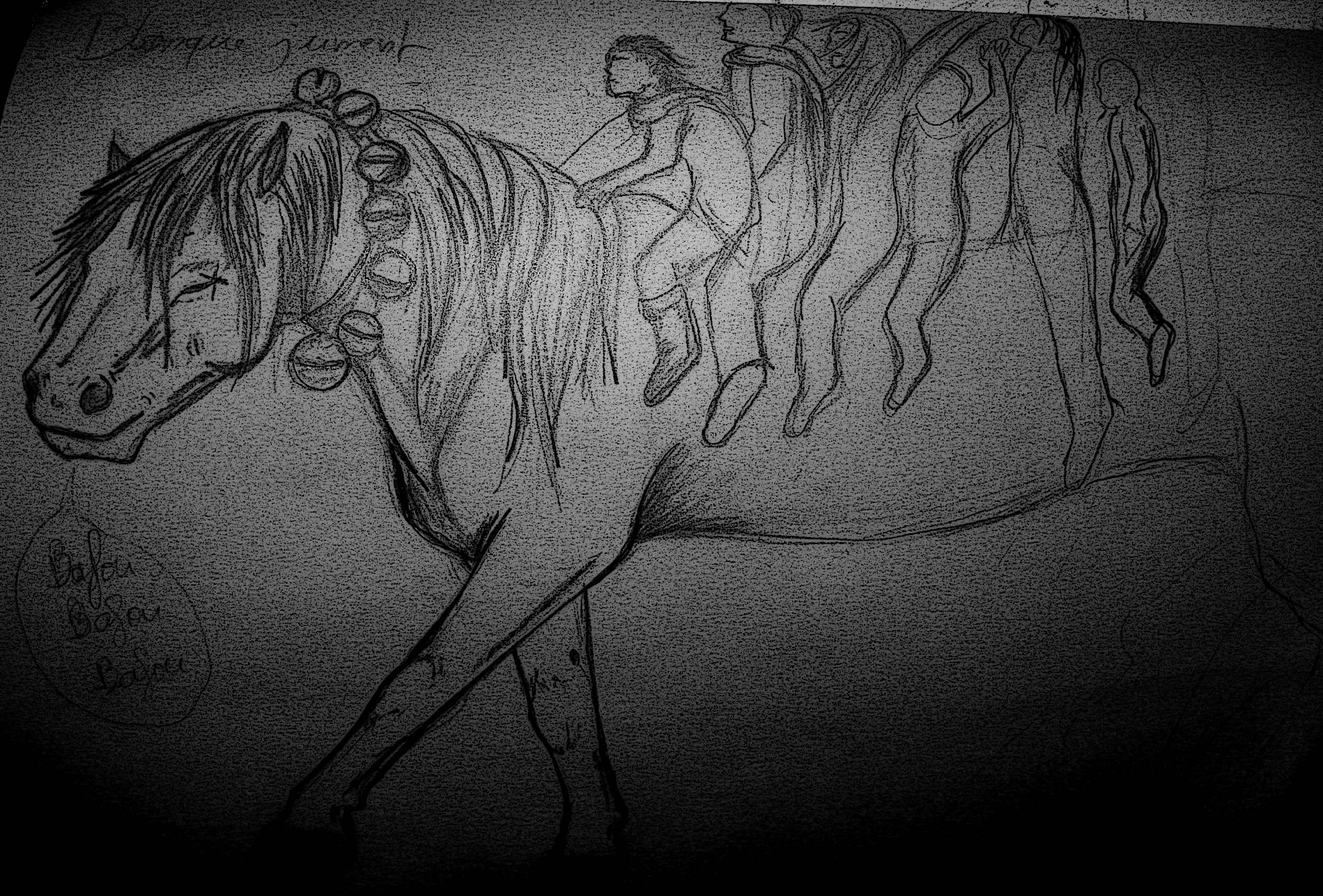 The blanque jument in Artois folklore, France.